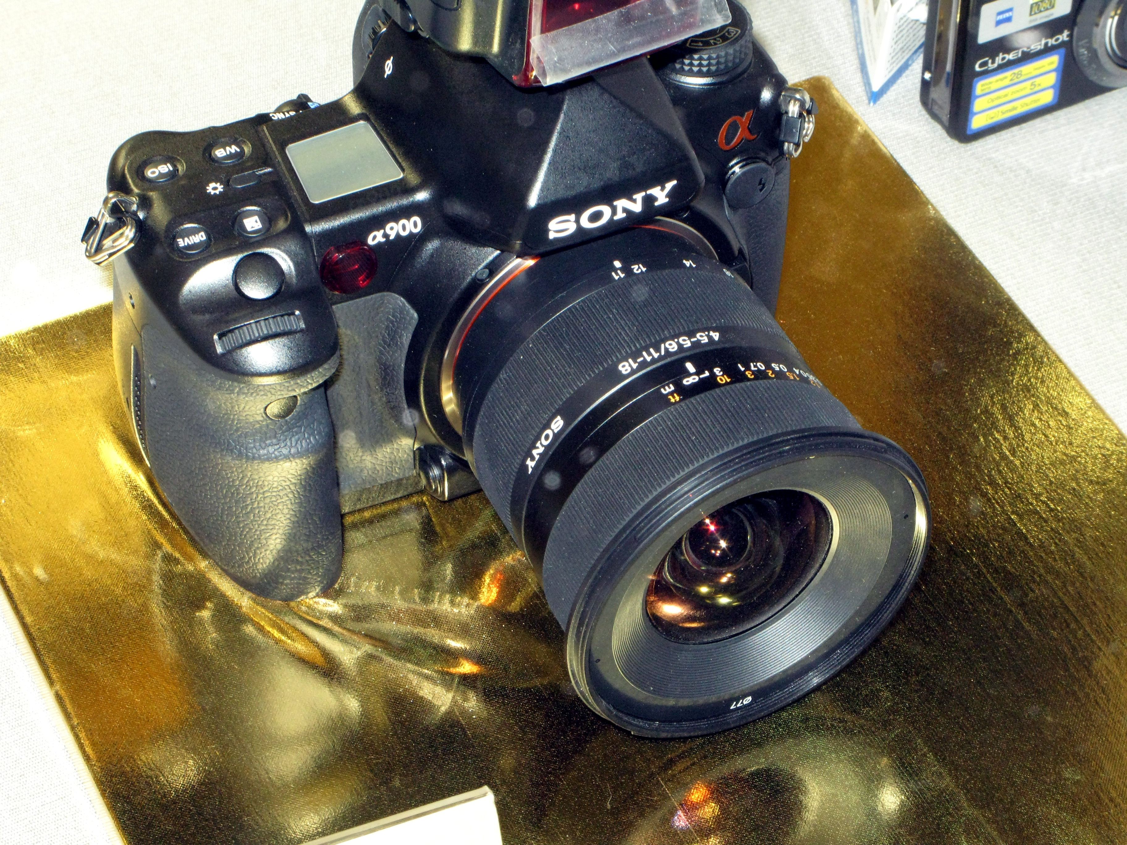 Sony Alpha 900